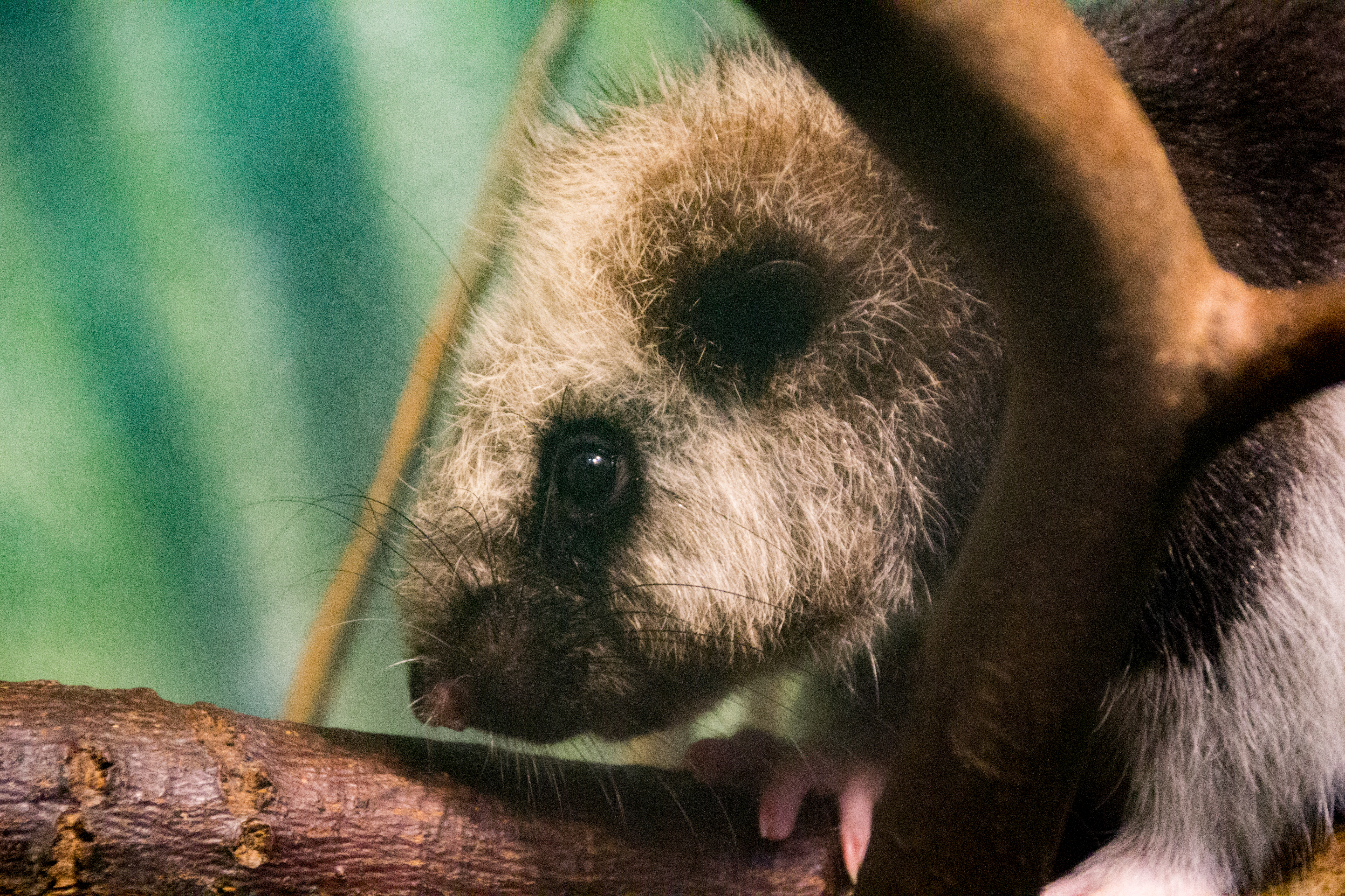 At New York City, USA Slender-tail Cloud Rat. Phloeomys pallidus